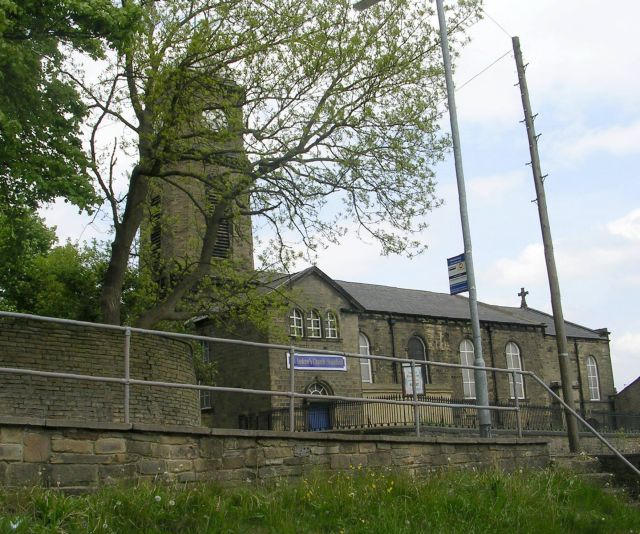 St Andrew's Church - Stainland Road, Stainland. William Swinden Barber partly rebuilt and enlarged the church in 1887. Further information can be found here.